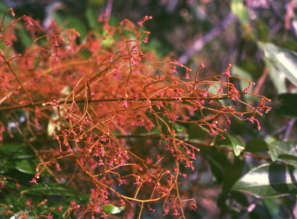 Eurycoma longifolia, Simaroubaceae - Kambodscha/Cambodia, bei den Stromschnellen (rapids) des Flusses Tek Chhou N Kampot (Prov. Kampot)